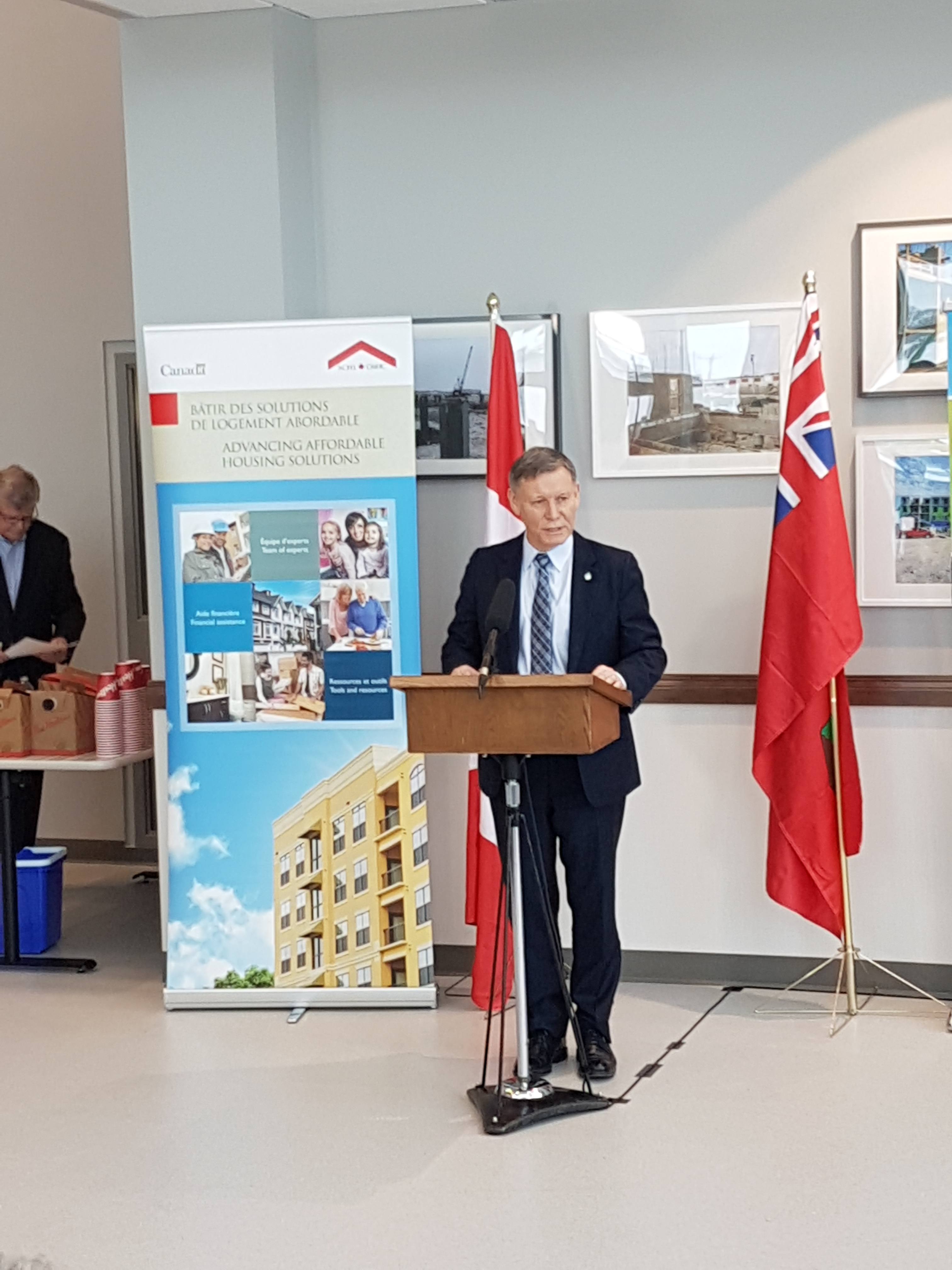 Terry Duguid, MP for Winnipeg South at a housing announcement for CMHC in Transcona, Manitoba.